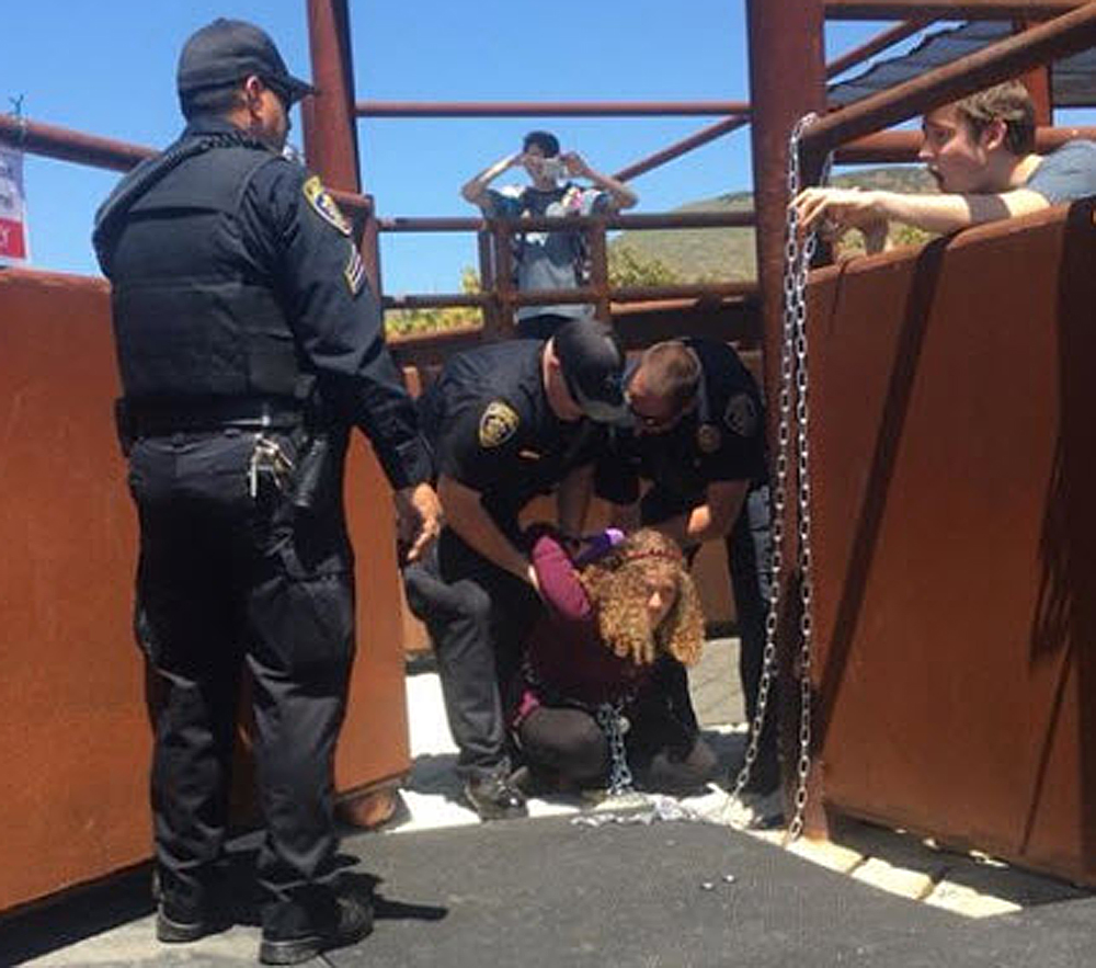 Zoe Rosenberg (age 15) - Protesting the Slaughter House on the campus of California State University (Cal Poly) by chaining herself to the gate in 2018. She was arrested.